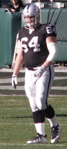 Jake Grove